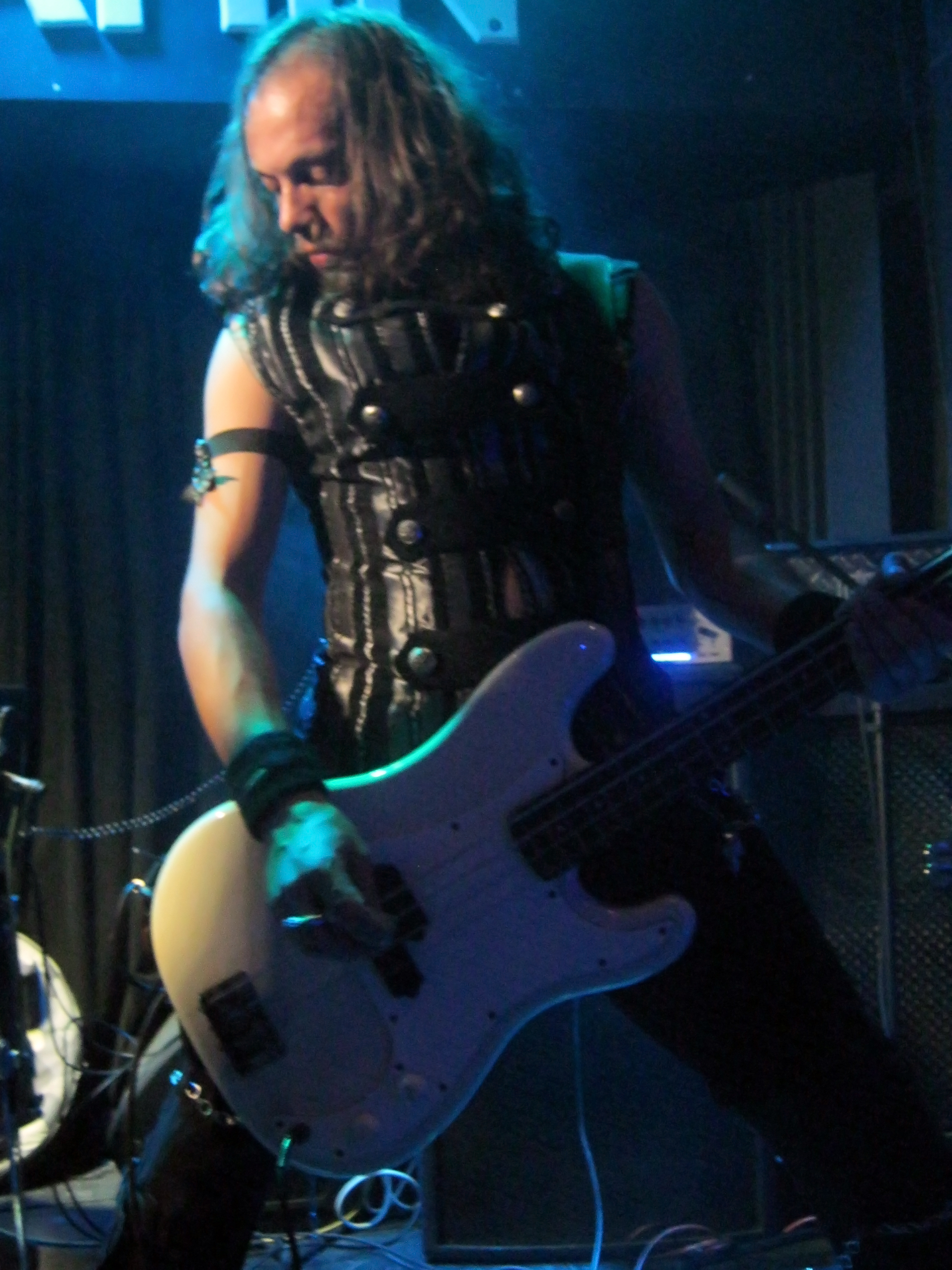 Desert (Israel). Photo taken on 22/10/15